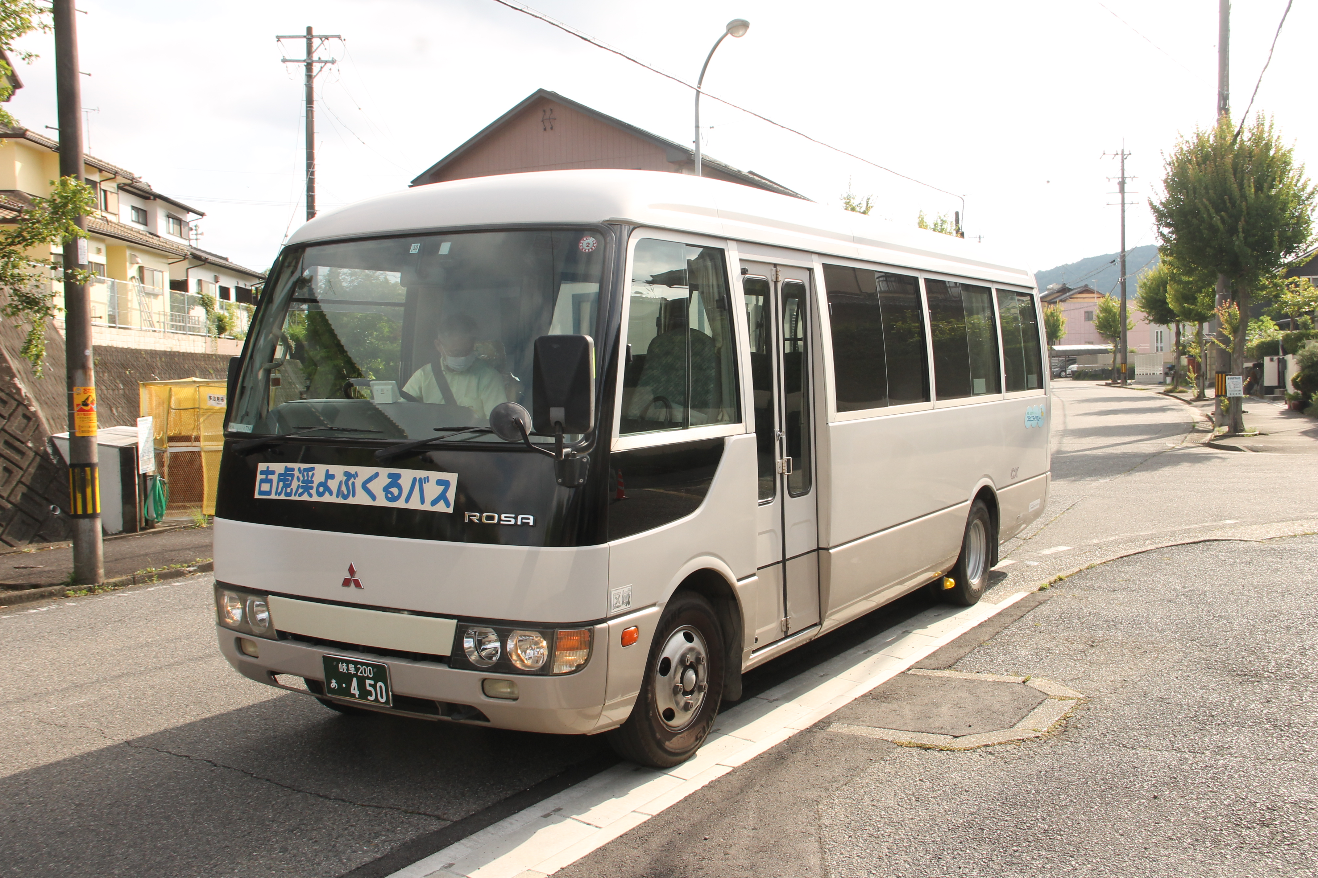 Kokokei Yobukuru Bus run by Community Taxi, connecting Kokokei Station and Ichinokura High Land in Tajimi, Gifu Prefecture. The vehicle is Mitsubishi Fuso Rosa.